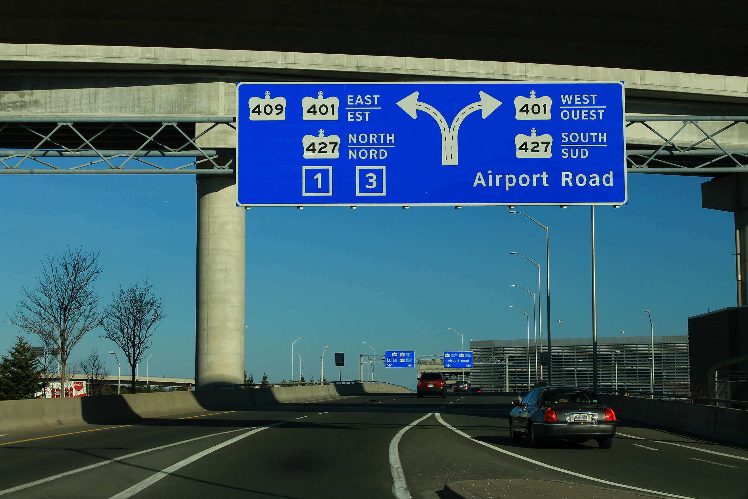 Leaving the arrivals level of Terminal 3 at Toronto Pearson International Airport. The building in the background is the Terminal 1 parking garage.